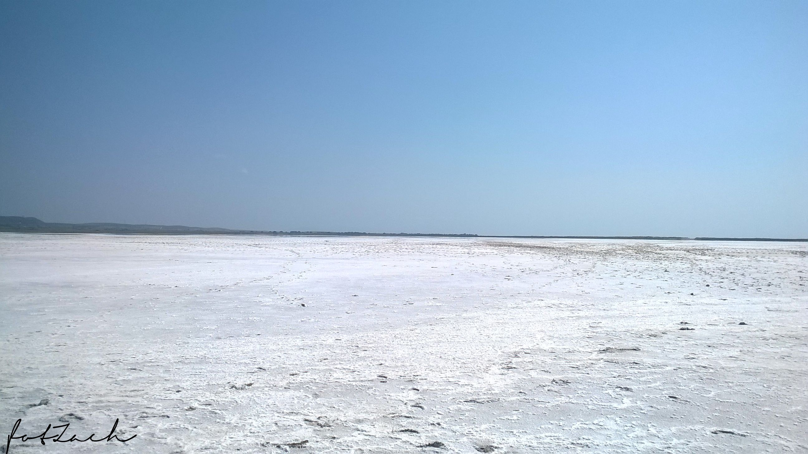 This is a photography of Natura 2000 protected area with ID GR4110001